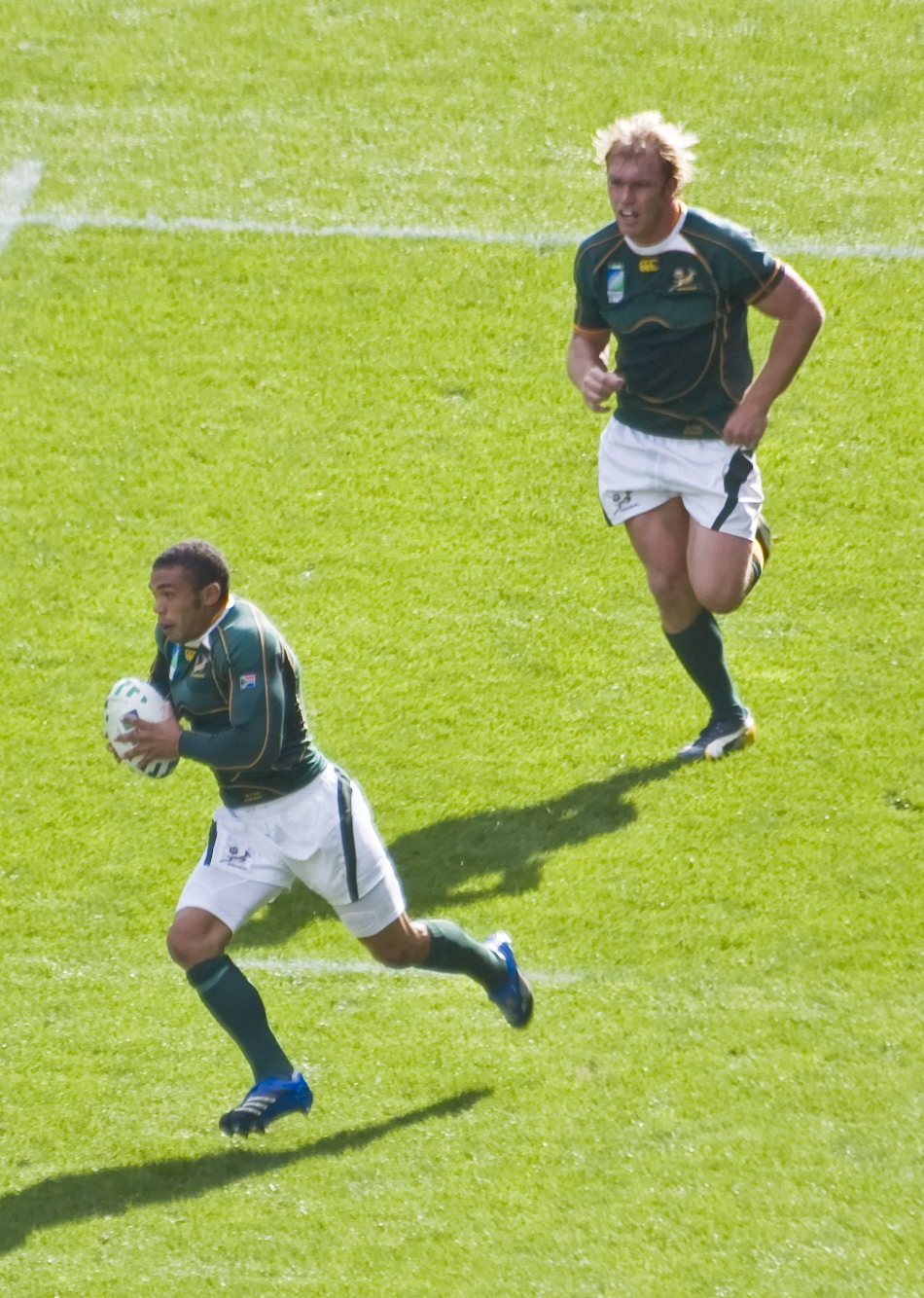 Bryan Habana goes for the line.